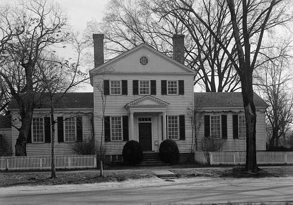 Semple House, Francis Street (Williamsburg, Virginia) cropped This file comes from the Historic American Buildings Survey (HABS), Historic American Engineering Record (HAER) or Historic American Landscapes Survey (HALS). These are programs of the National Park Service established for the purpose of documenting historic places. Records consist of measured drawings, archival photographs, and written reports. When reusing please credit: Library of Congress, Prints & Photographs Division, VA,48-WIL,6-1 This tag does not indicate the copyright status of the attached work. A normal copyright tag is still required. See Commons:Licensing for more information. This work is in the public domain in the United States because it is a work prepared by an officer or employee of the United States Government as part of that person’s official duties under the terms of Title 17, Chapter 1, Section 105 of the US Code. See Copyright. Note: This only applies to original works of the Federal Government and not to the work of any individual U.S. state, territory, commonwealth, county, municipality, or any other subdivision. This template also does not apply to postage stamp designs published by the United States Postal Service since 1978. (See § 313.6(C)(1) of Compendium of U.S. Copyright Office Practices). It also does not apply to certain US coins; see The US Mint Terms of Use. This file has been identified as being free of known restrictions under copyright law, including all related and neighboring rights. Object location37° 16′ 12″ N, 76° 41′ 36″ W